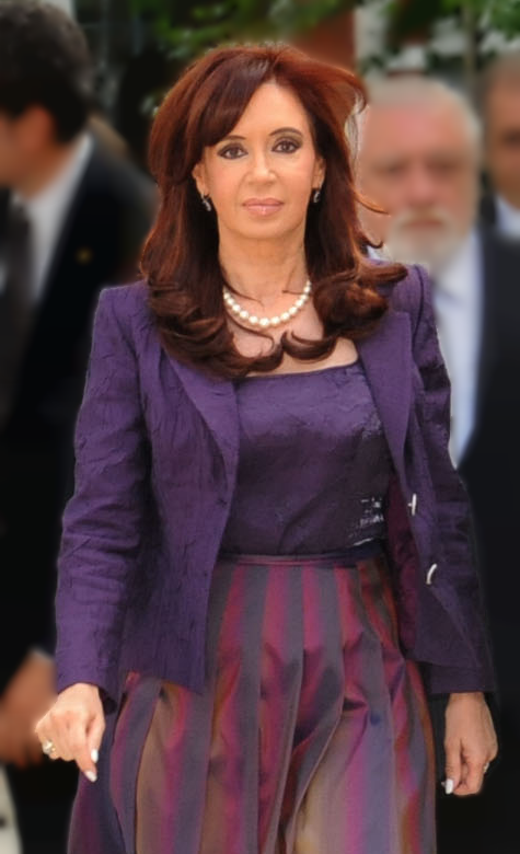 Centered image of President Cristina Fernandez de Kirchner at the ESMA on March 24, 2010.